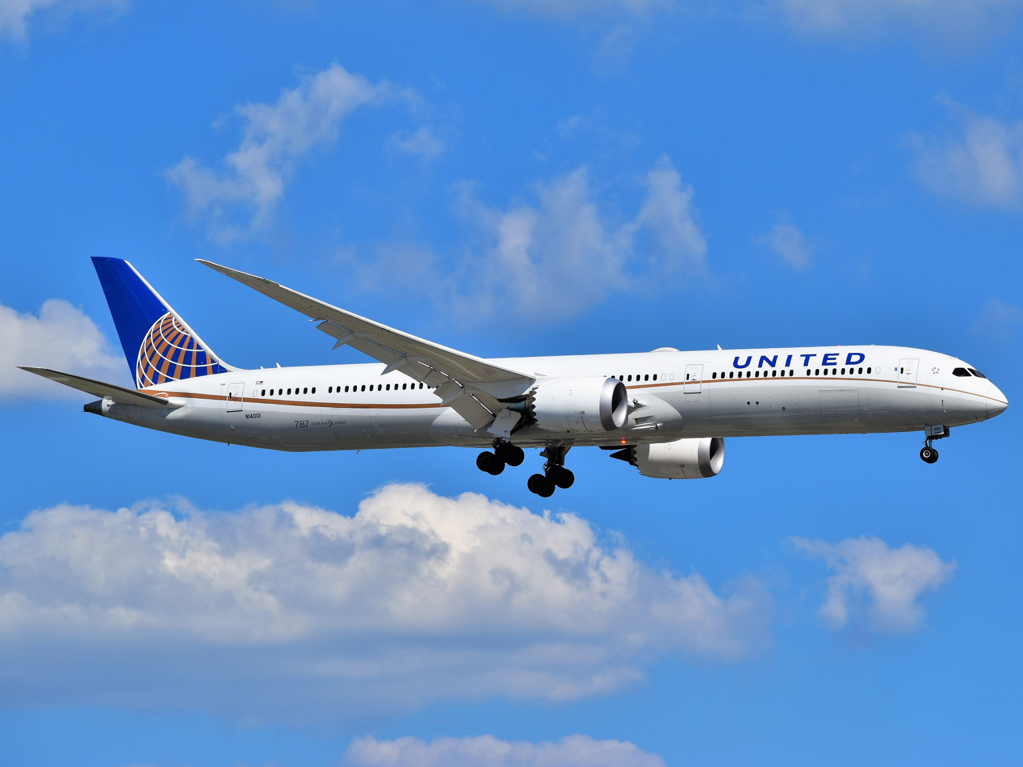 A United Airlines Boeing 787-10 Dreamliner is on final approach to Newark Liberty International Airport, arriving from Los Angeles International Airport as UA2418/UAL2418, passing over Interstate 78 and Port Street in the North Area.